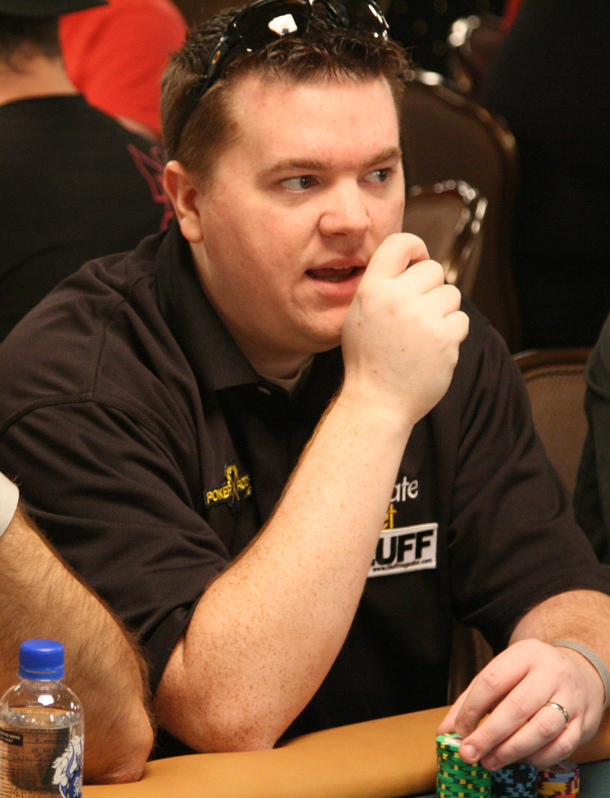 Eric Lynch at the 2008 World Series of Poker (cropped)